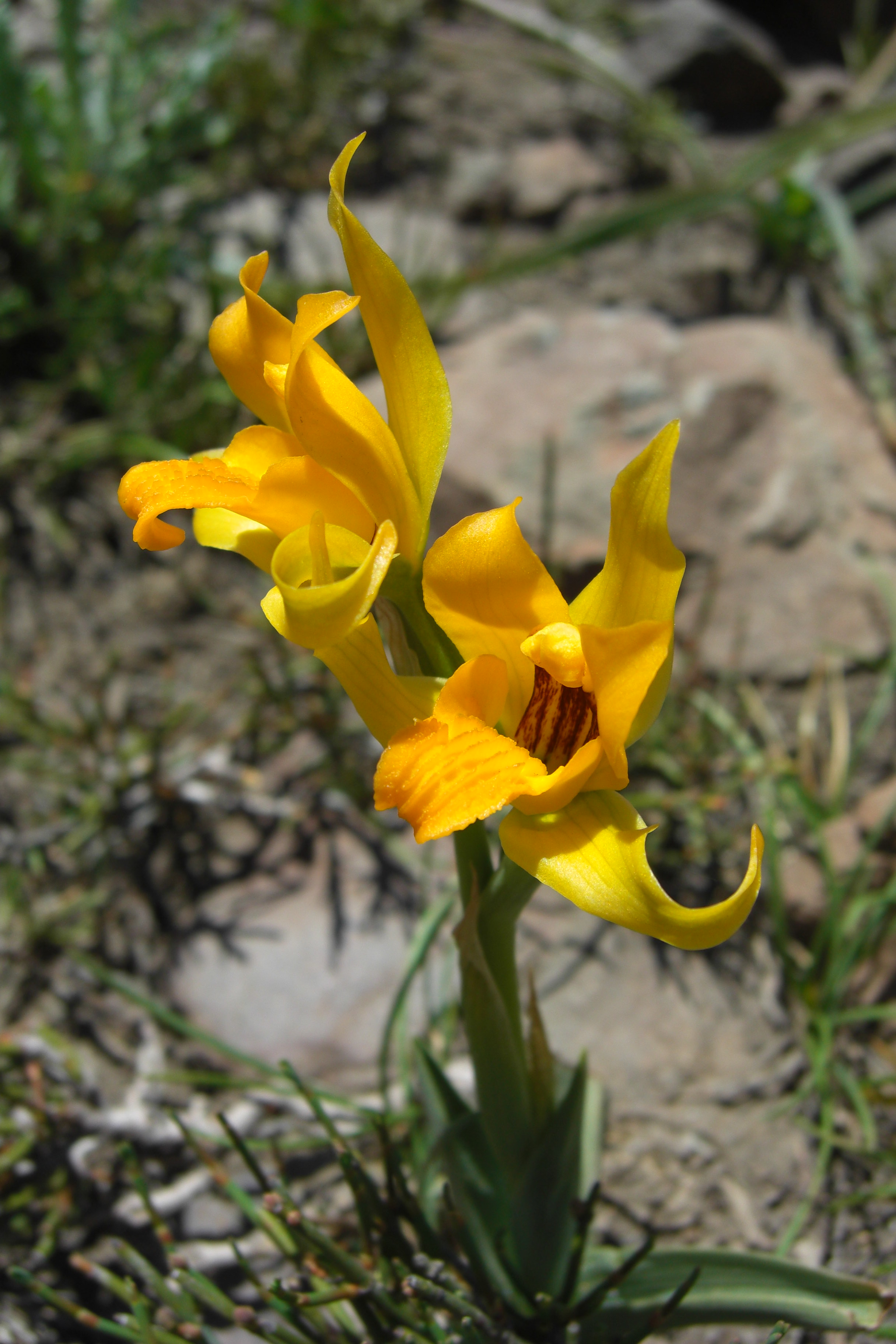 Chloraea alpina Poeppig 20081121.14 near Santiago, Chile From mountains just east of Santiago, Chile (near San Jose del Maipo). Last thing I expected to find in this alpine flat! Looks much like our Epipactis gigantea.